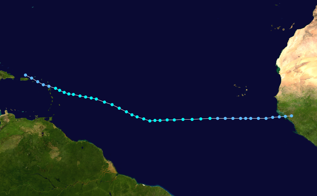 Tropical Storm Christine (1973) track. Uses the color scheme from the Saffir-Simpson Hurricane Scale.